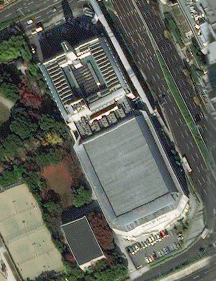 Hiroshima Sun Plaza